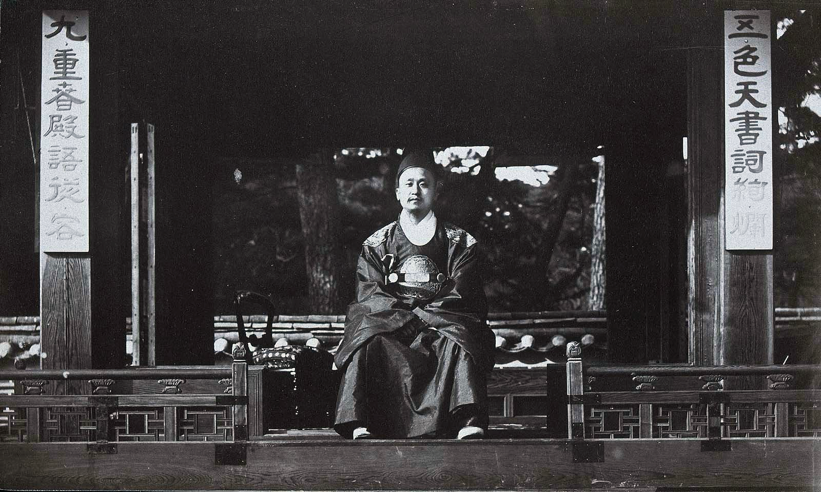 His Majesty the King of Korea